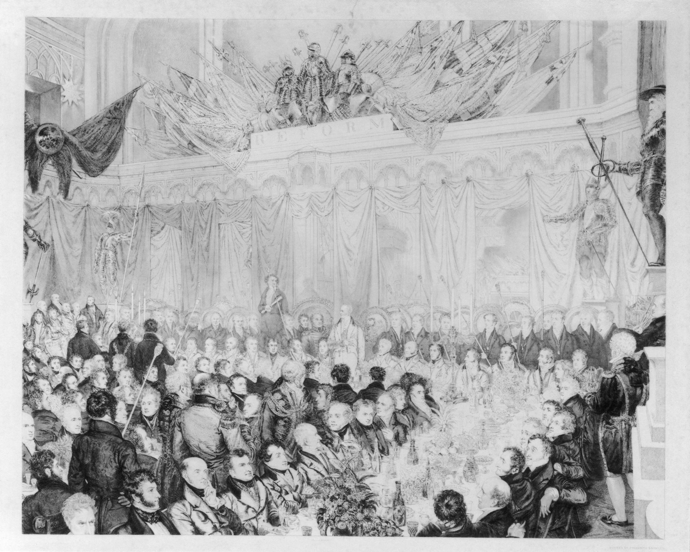 The Reform Banquet at Guildhall, July 11th 1832, by William Bromley (died 1842). All images in this batch have been confirmed as author died before 1939 according to the official death date listed by the NPG.